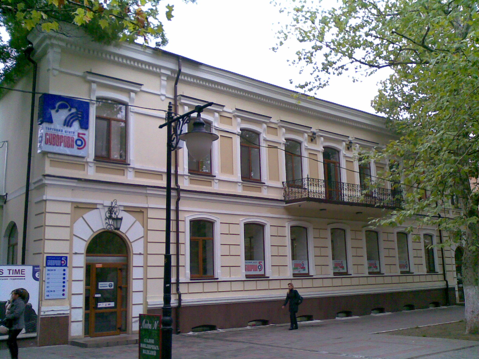 Kherson-28102009(008)